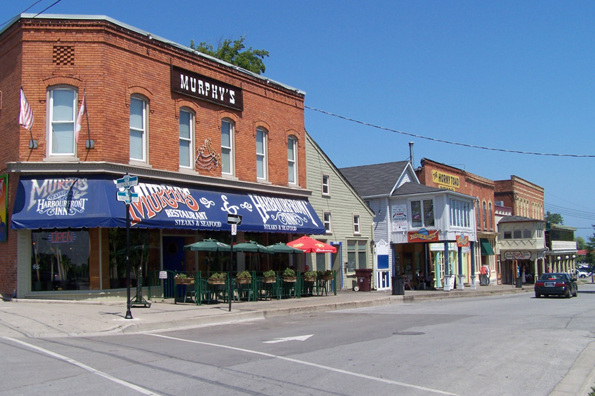 Taken by User:Trappy in July, 2006. This is a photograph of the storefronts that line Lakeport Rd. in Port Dalhousie, an area of St. Catharines, Ontario. I personally took this photo and release it to the public domain.